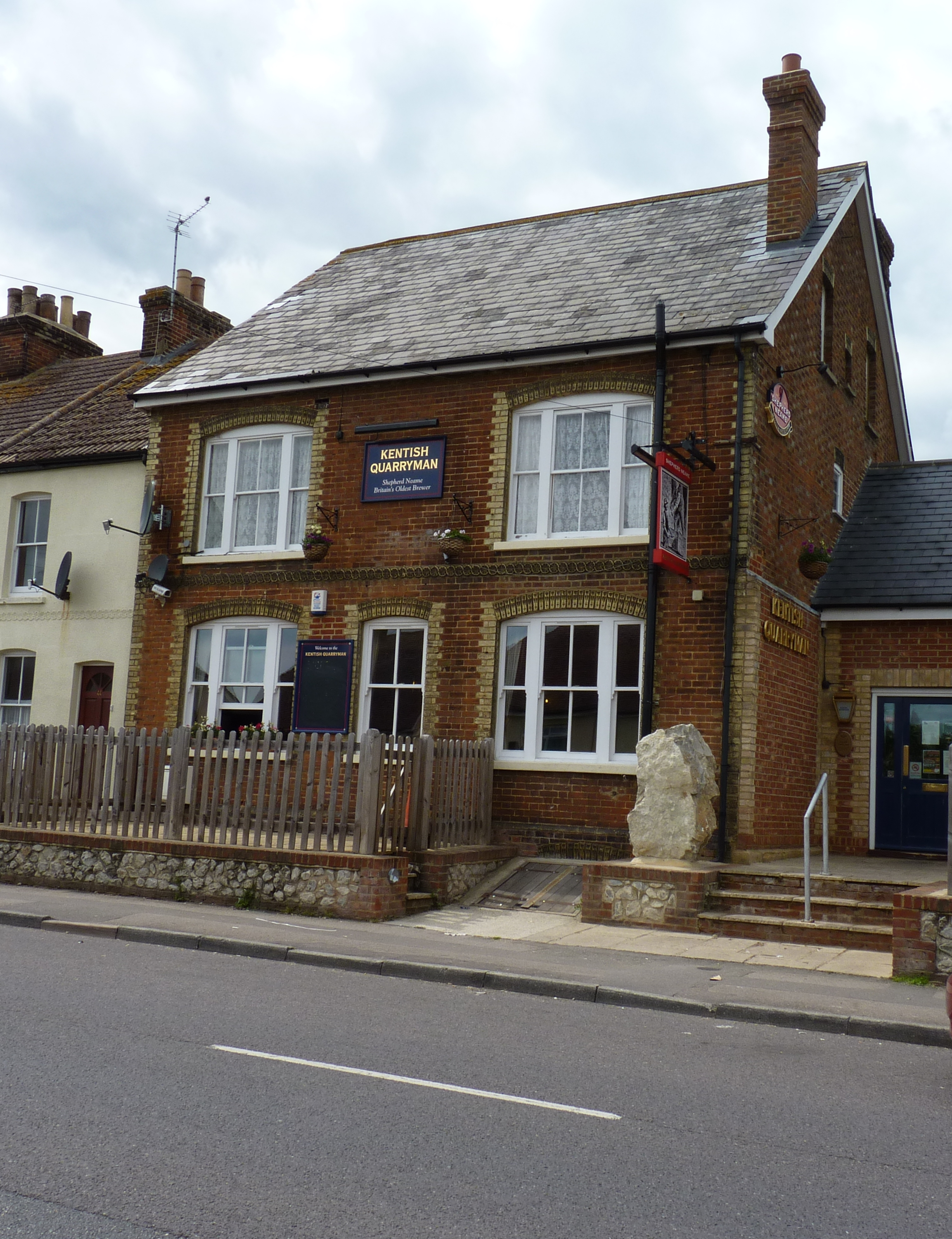 The one and only pub in Ditton